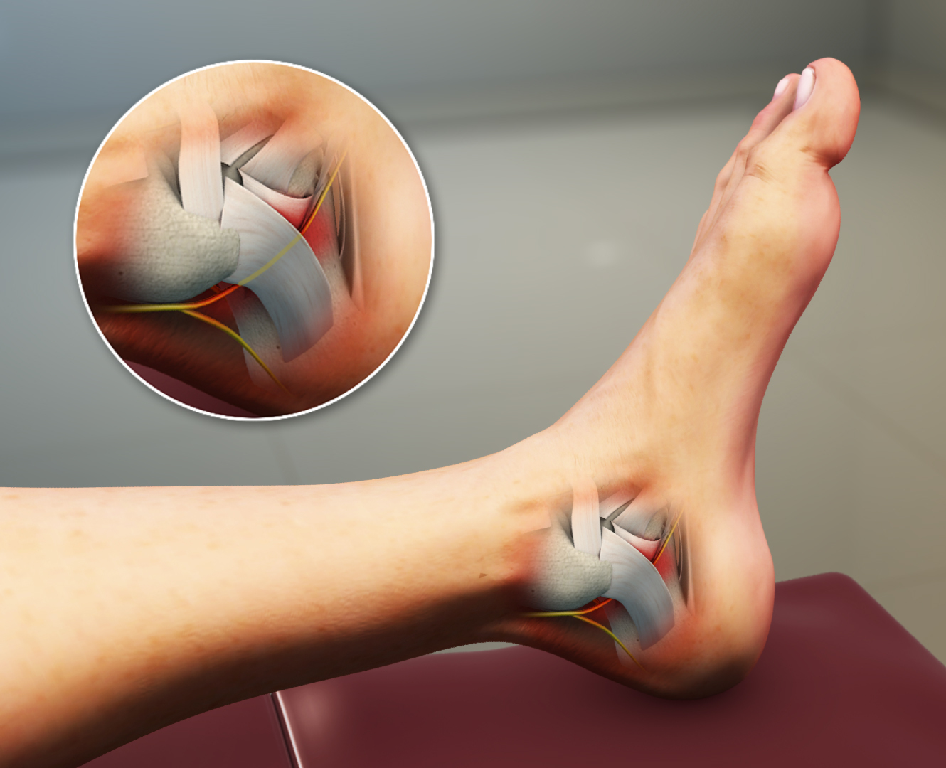 3D medical animation still showing a compression, or squeezing, on the posterior tibial nerve.